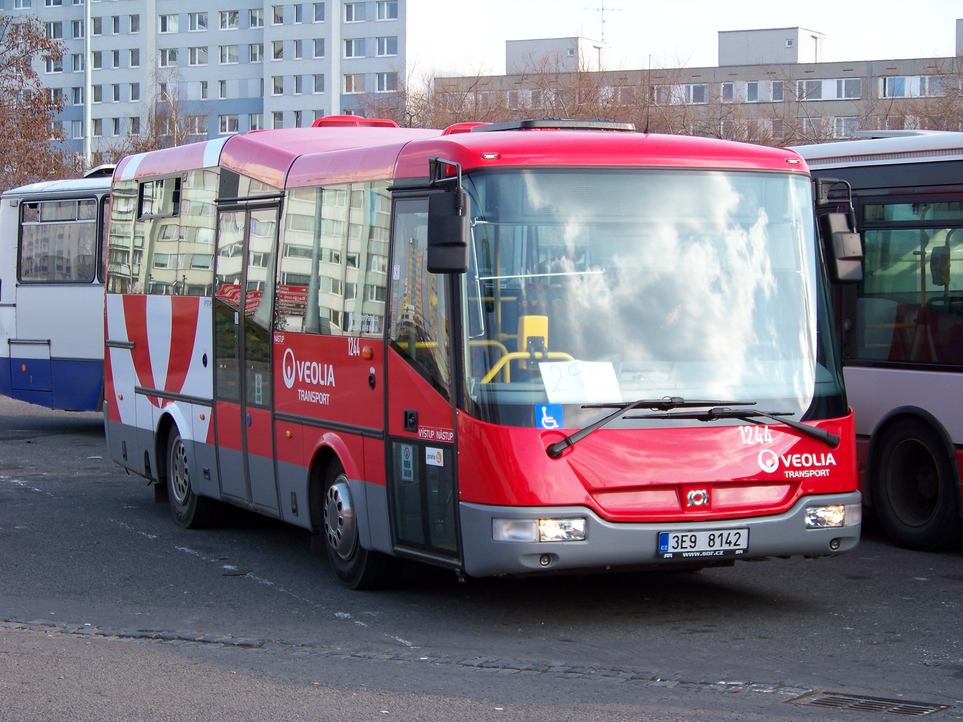 Háje, Prague, the Czech Republic. Bus SOR CN 8,5 of Veolia Transport in Prague.